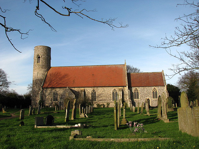 All Saints Church, Belton All Saints church received its red tile roof in 1880; nave and chancel are reconstructed, and the round tower, a heap of rubble by the mid 19th century, is completely rebuilt. Sadly, this church is kept firmly locked.